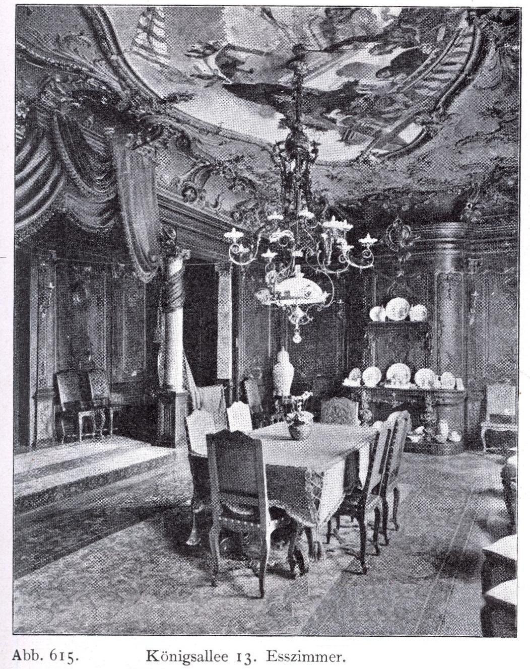 Haus Königsallee 13 in Düsseldorf, Esszimmer umgebaut durch Jacobs & Wehling (1862-1913), Deckengemälde von Hermann Emil Pohle (1863 - 1914).jpg